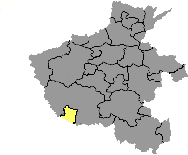 Location of Dengzhou county-level city in Henan province, China